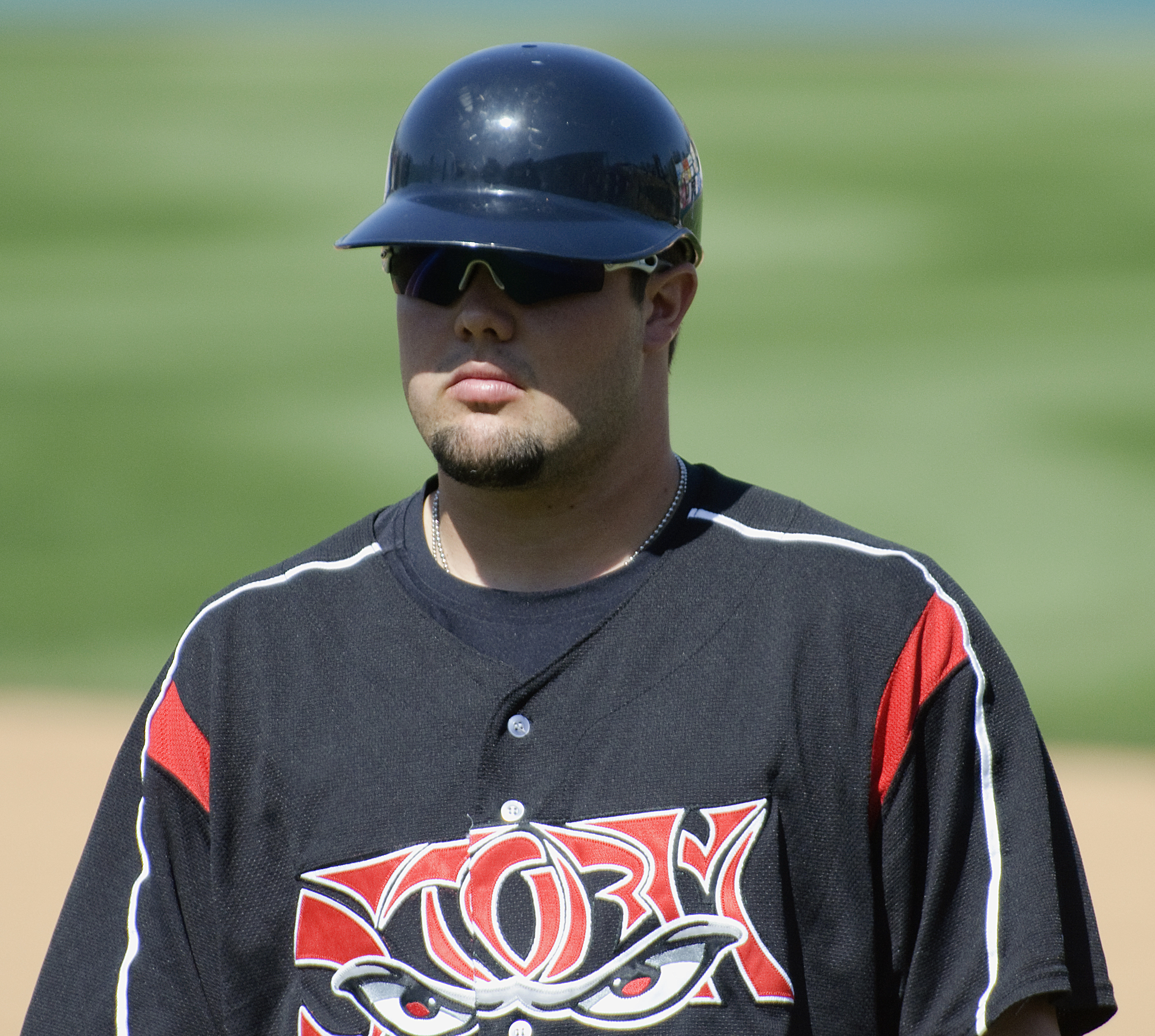 Jaff Decker of the Lake Elsinore Storm 2010